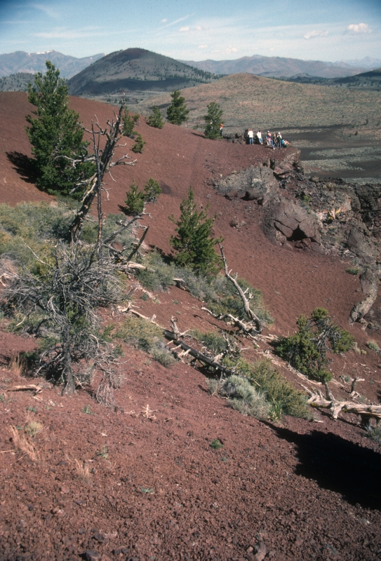 Echo Crater - in: Craters of the Moon National Monument and Preserve, Idaho, USA